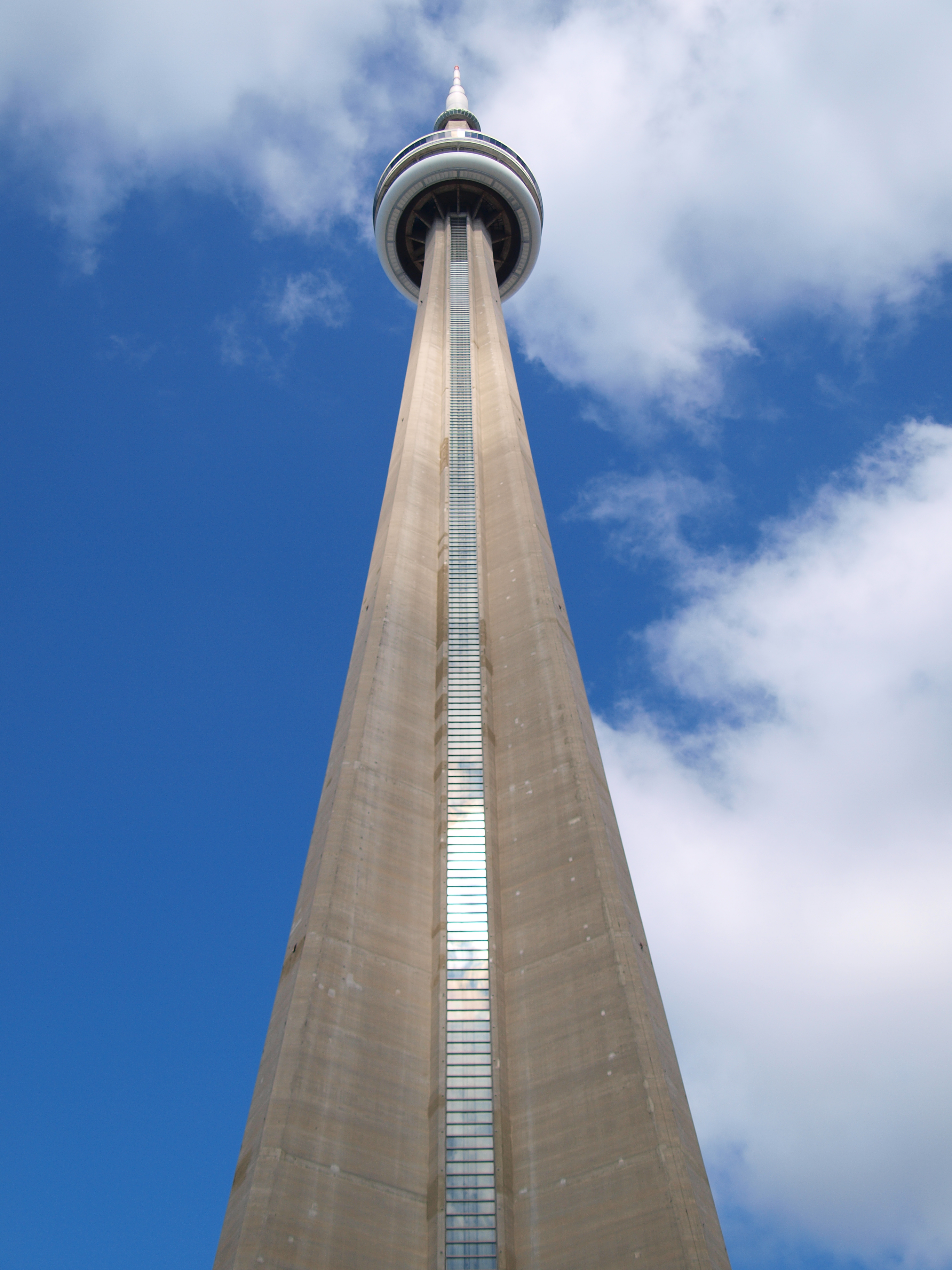 CN Tower as seen from its base.